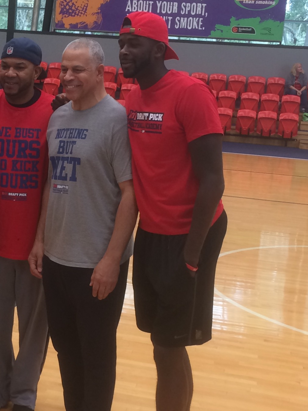 James Ennis, Steve Carfino and Ricky Grace with the No1 Draft Pick Basketball Academy in Perth